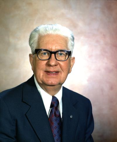 House of Representatives Sergeant at Arms Ray Olsen